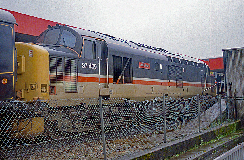 BR Class 47/4 37 409 Loch Awe in Mainline livery at Fort William in 1989. Just arrived with the stock for the Jacobite. Scanned from a Kodachrome 35mm slide.